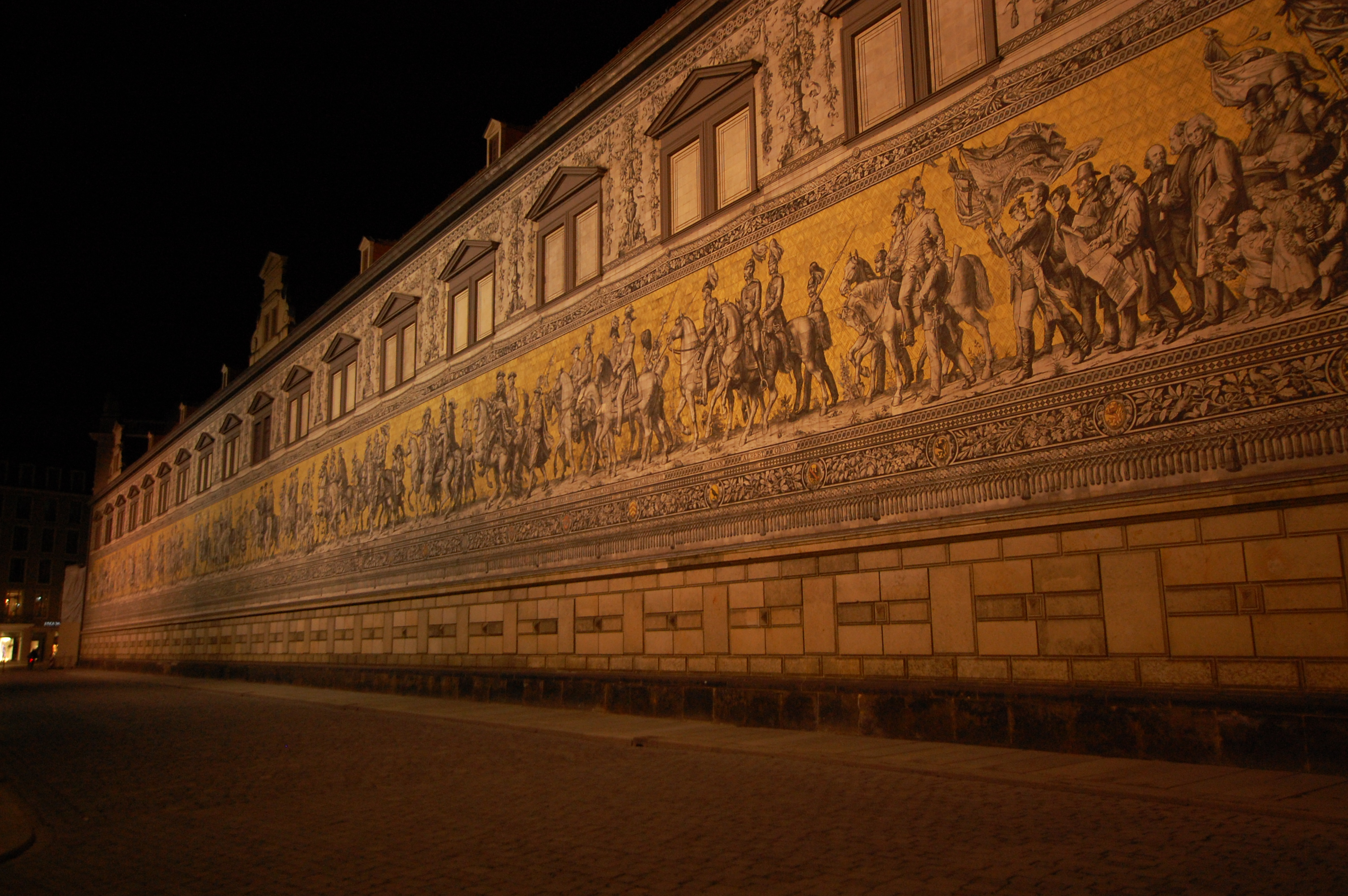 Fürstenzug (Procession of Princes) in Dresden, Germany